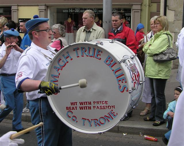 12th July Celebrations, Omagh (63) The Omagh True Blues drummer looks to be fit and able to complete the parade.